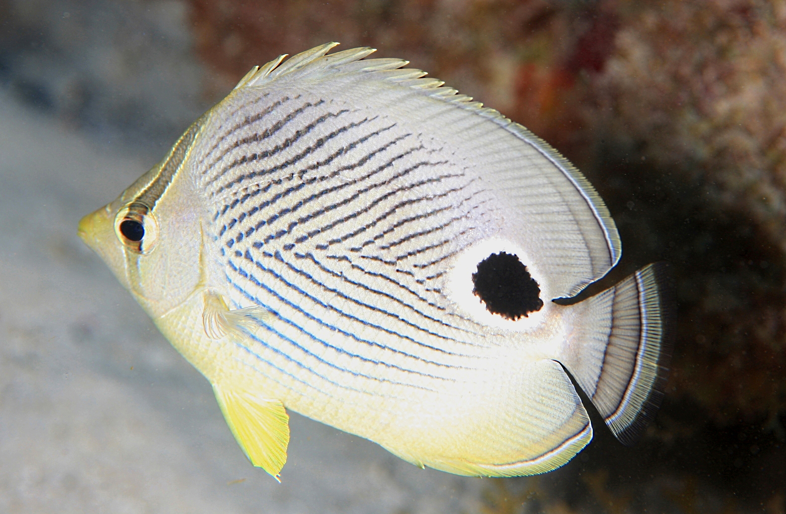 So many fish and insects seem to sport an extra large eye spot somewhere on their body to throw off predators... it must work, I guess. Isn't this little one cute?